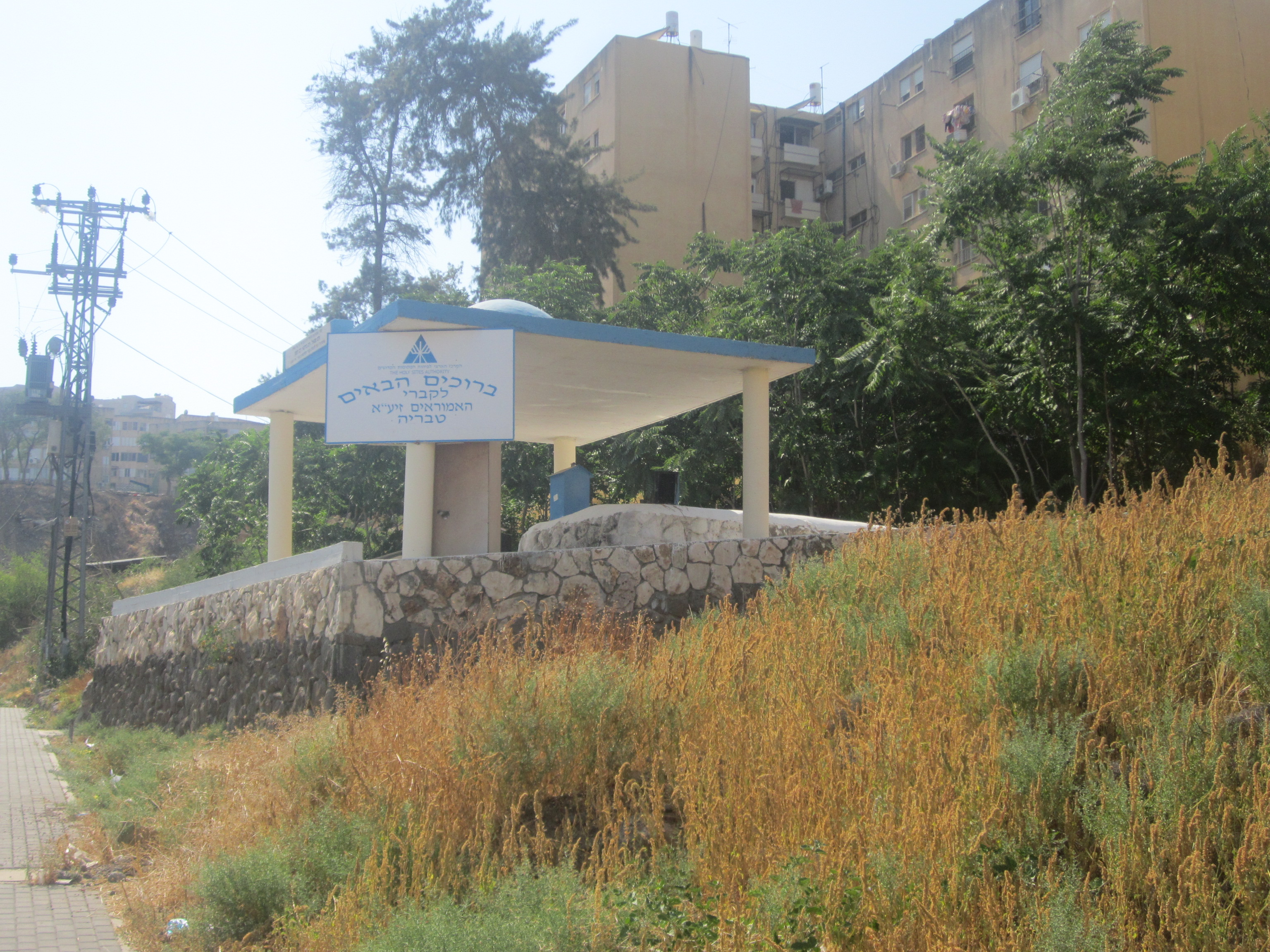 Amoraim Graves in Tiberias קברי האמוראים בטבריה